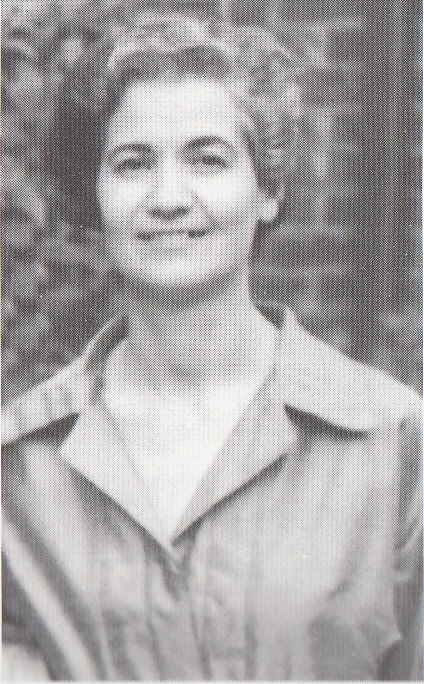 Dr. Alenush Terian (1920-2011), Iranian-Armenian physicist and astronomer who was the first female in both those fields in Iran.